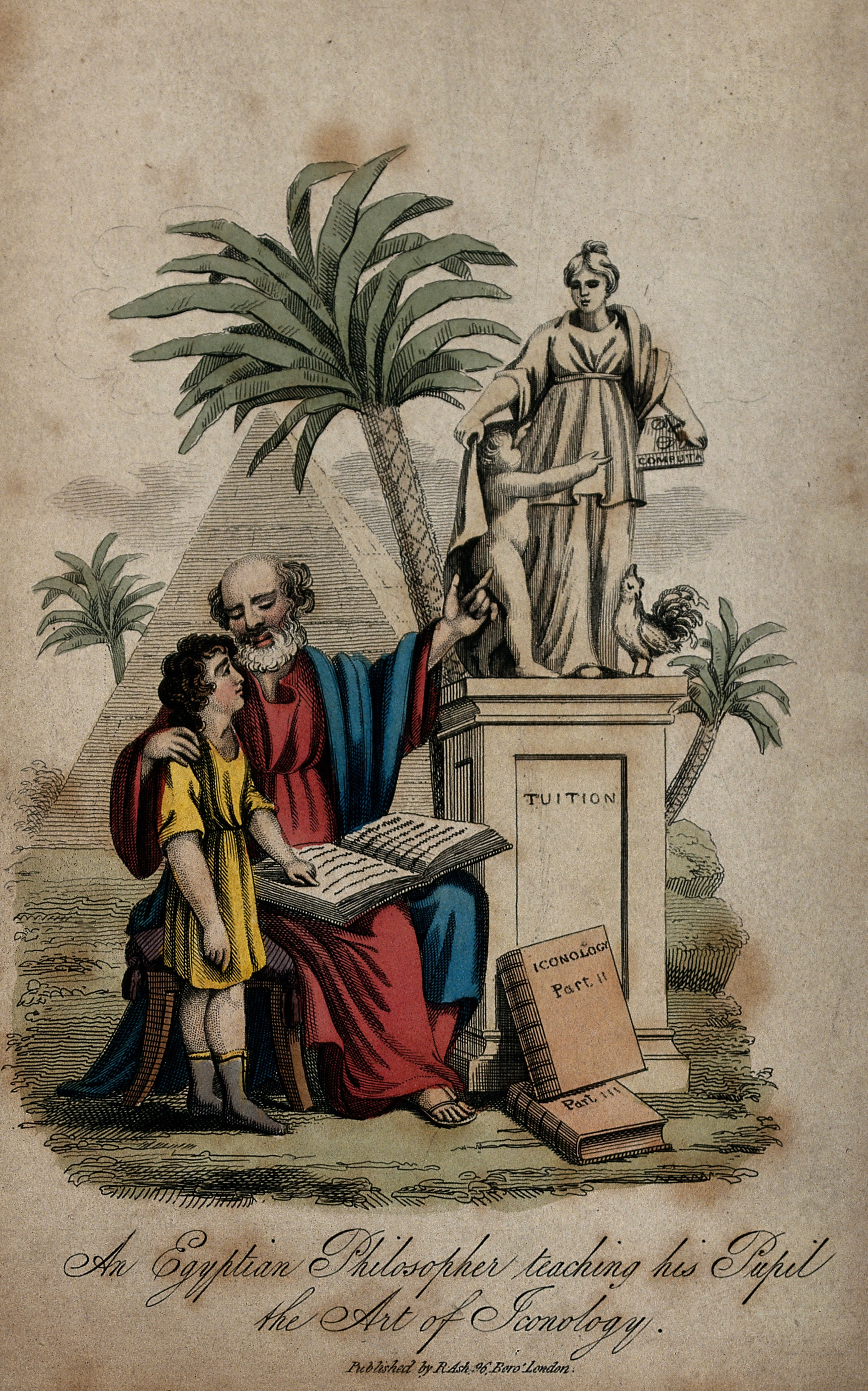 An Egyptian philosopher teaching his pupil the art of iconology. Etching. Iconographic Collections